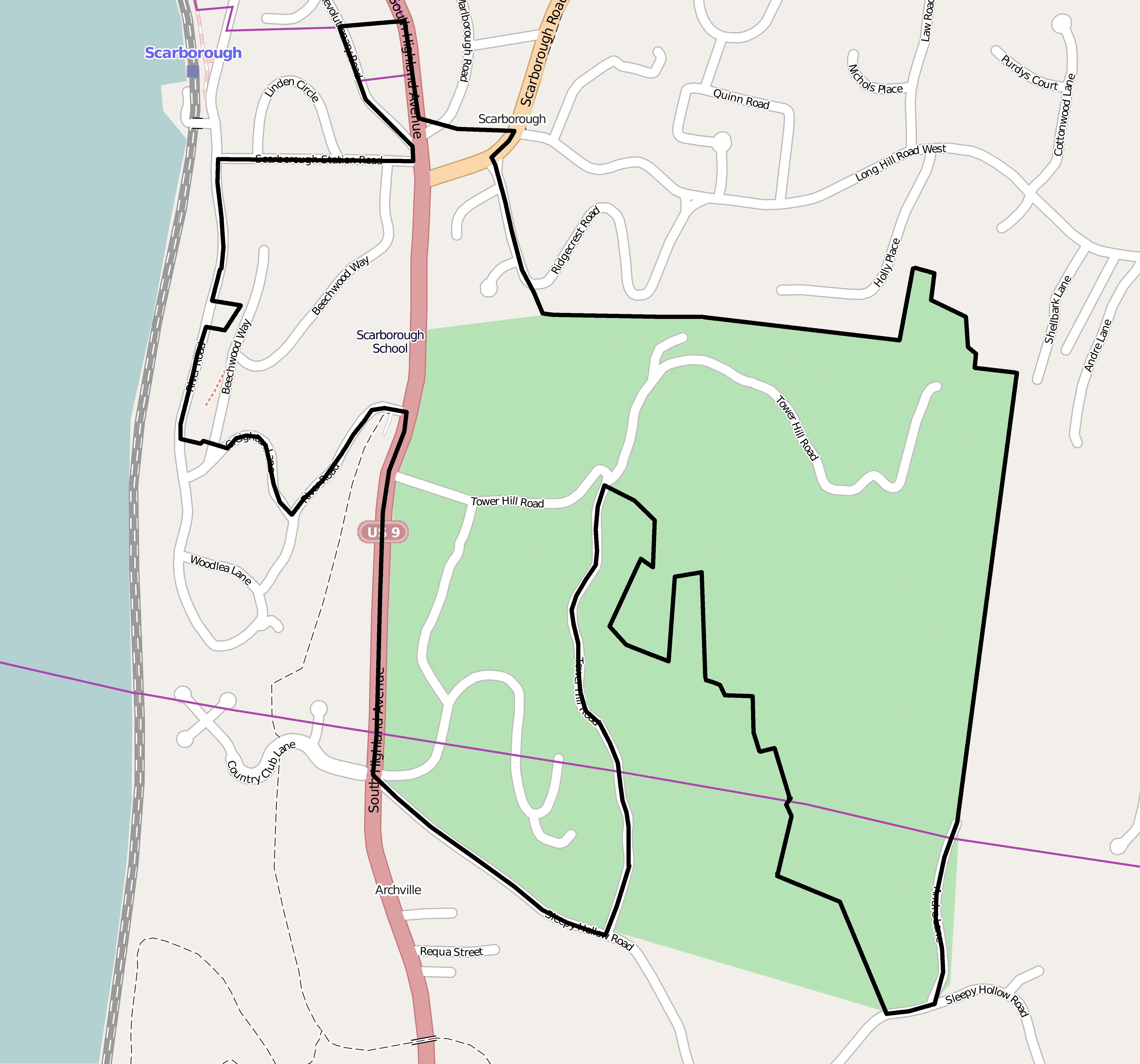 Map showing the boundaries of the Scarborough Historic District in Briarcliff Manor, New York, United States, showing Sleepy Hollow Country Club. The historic district is listed on the National Register of Historic Places. Boundaries are derived from the map attached to the district's National Register nomination form.